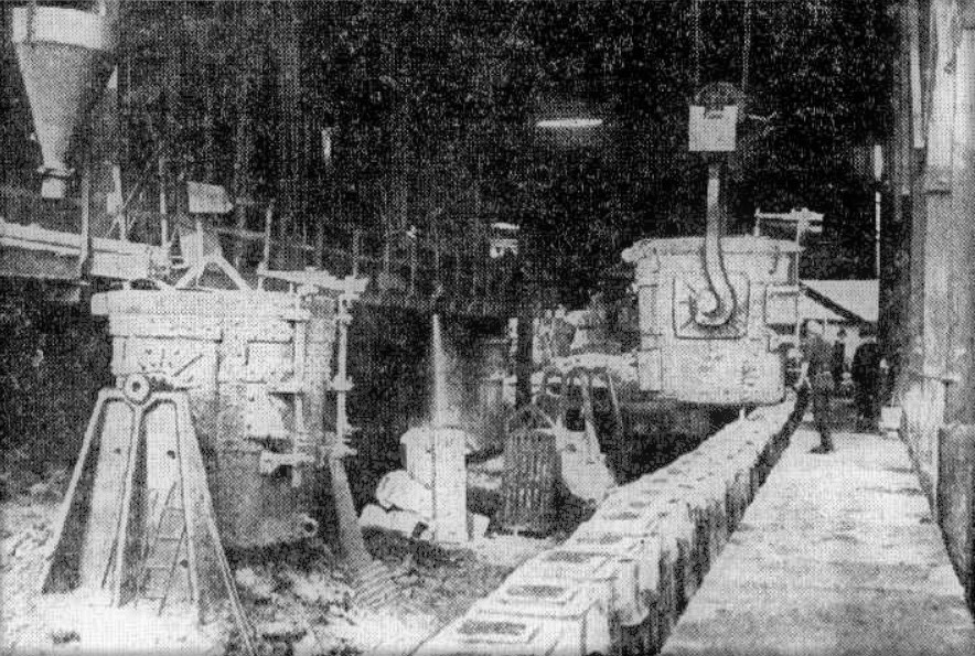 Lithgow Steelworks - Teeming steel into ingot moulds c.1914